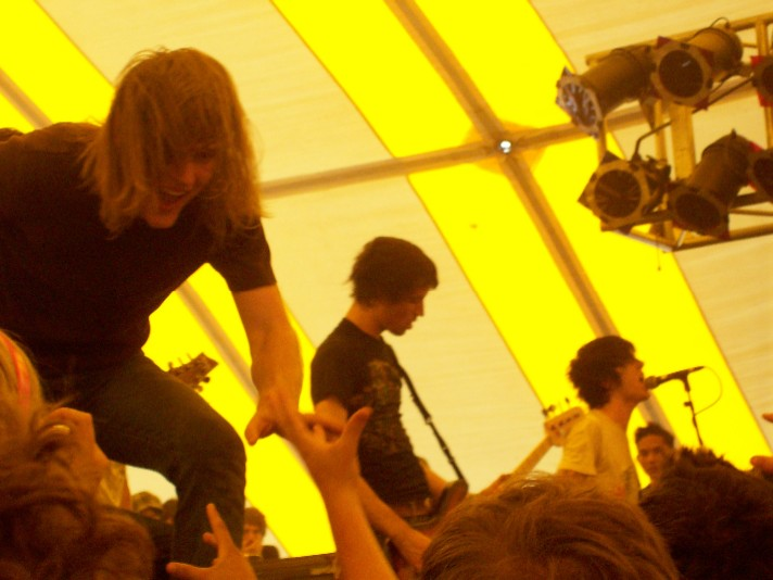 The American metalcore band The Devil Wears Prada at the Cornerstone Festival.